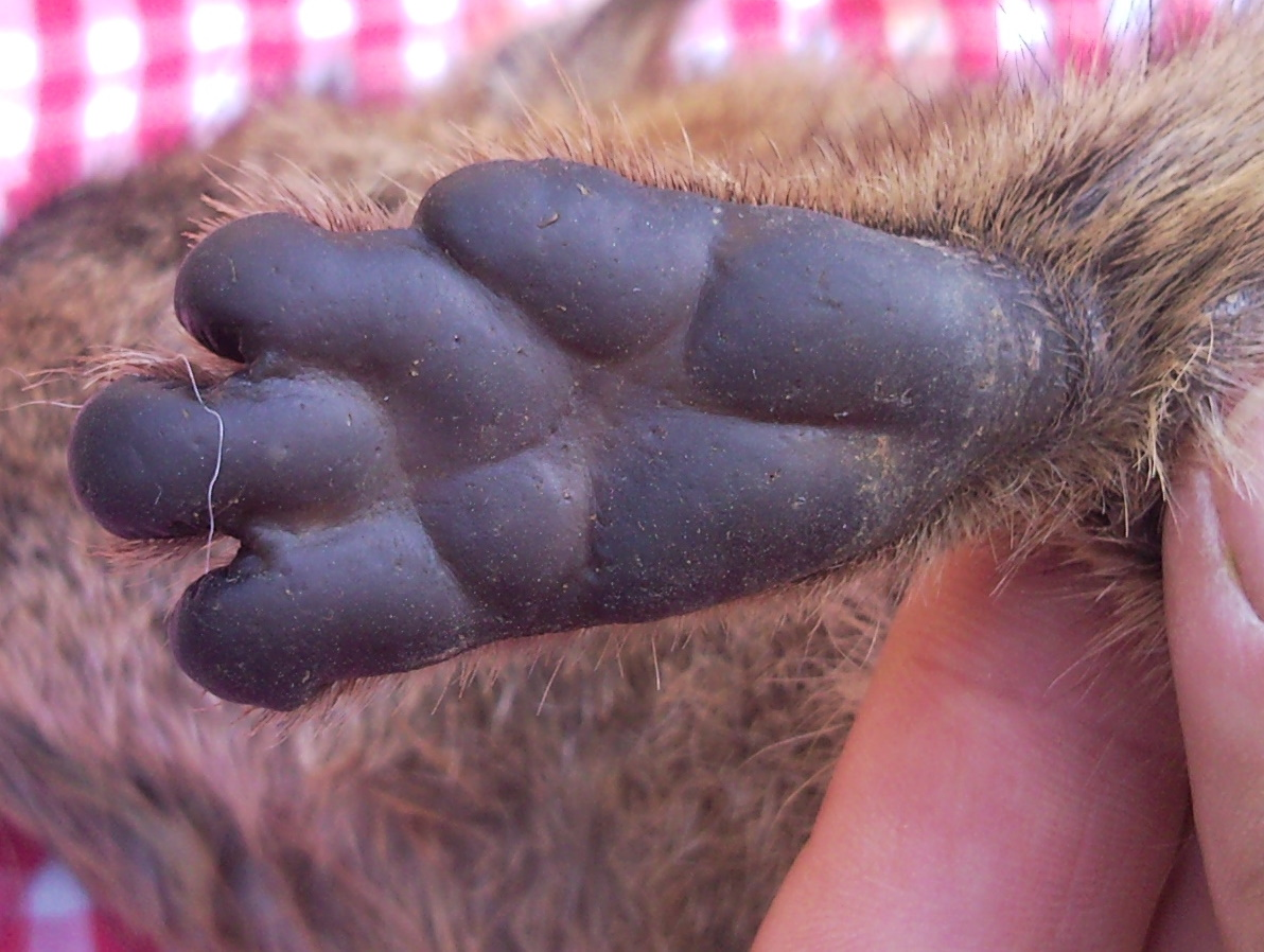 Close up of the foot pads on a Rock hyrax Procavia capensis